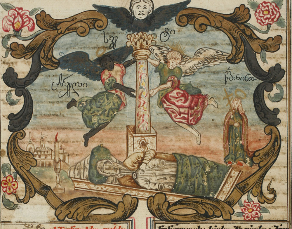 A Georgian miniature depicting St. Nino and the episode of the legend of the Svetitskhoveli cathedral